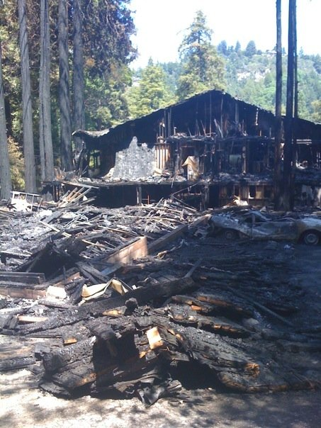 Burnt section of the Brookdale Lodge one day after the 2009 fire.